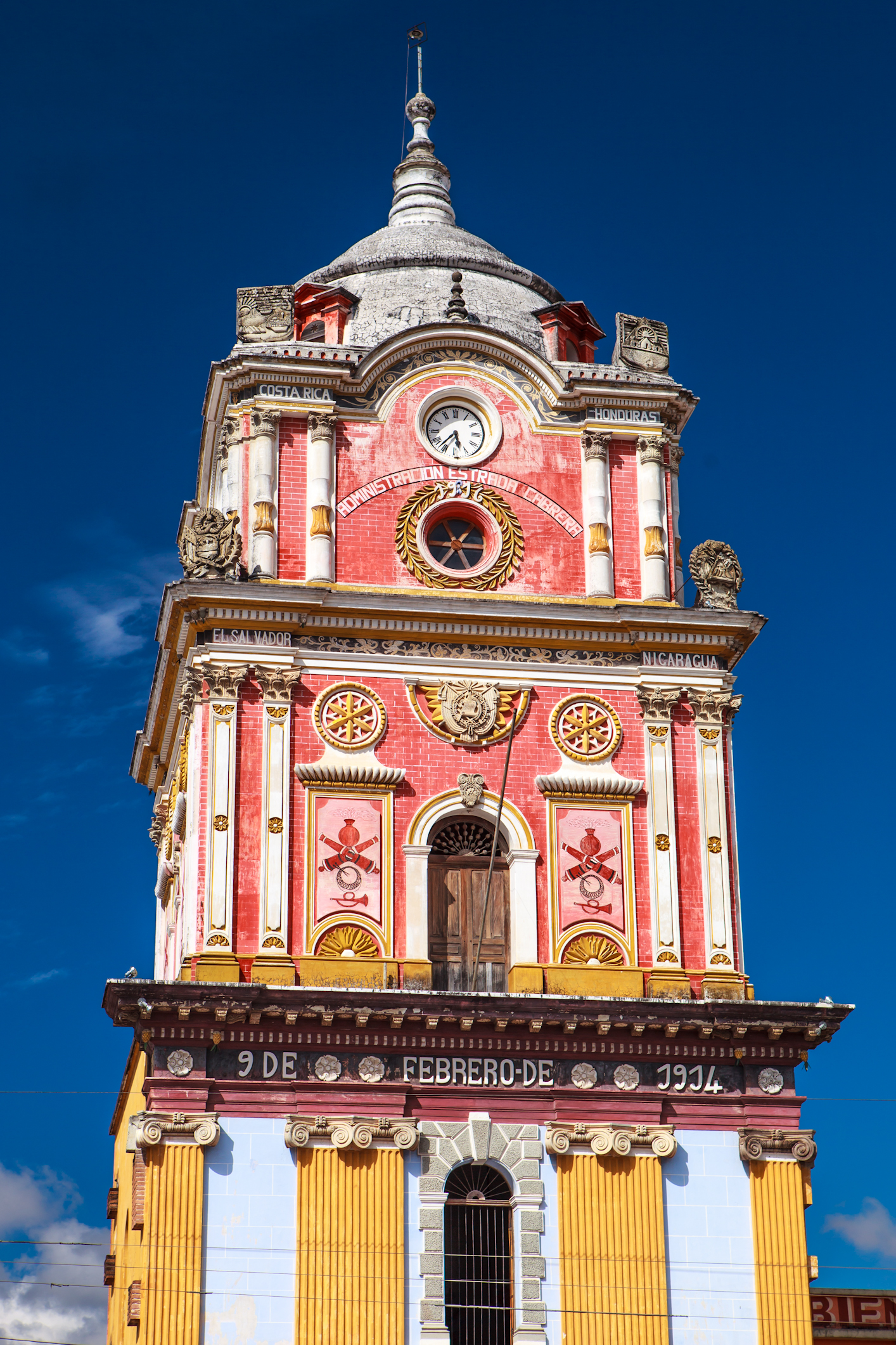 Central American Tower (Torre Centroamericana) in Sololá, Guatemala.